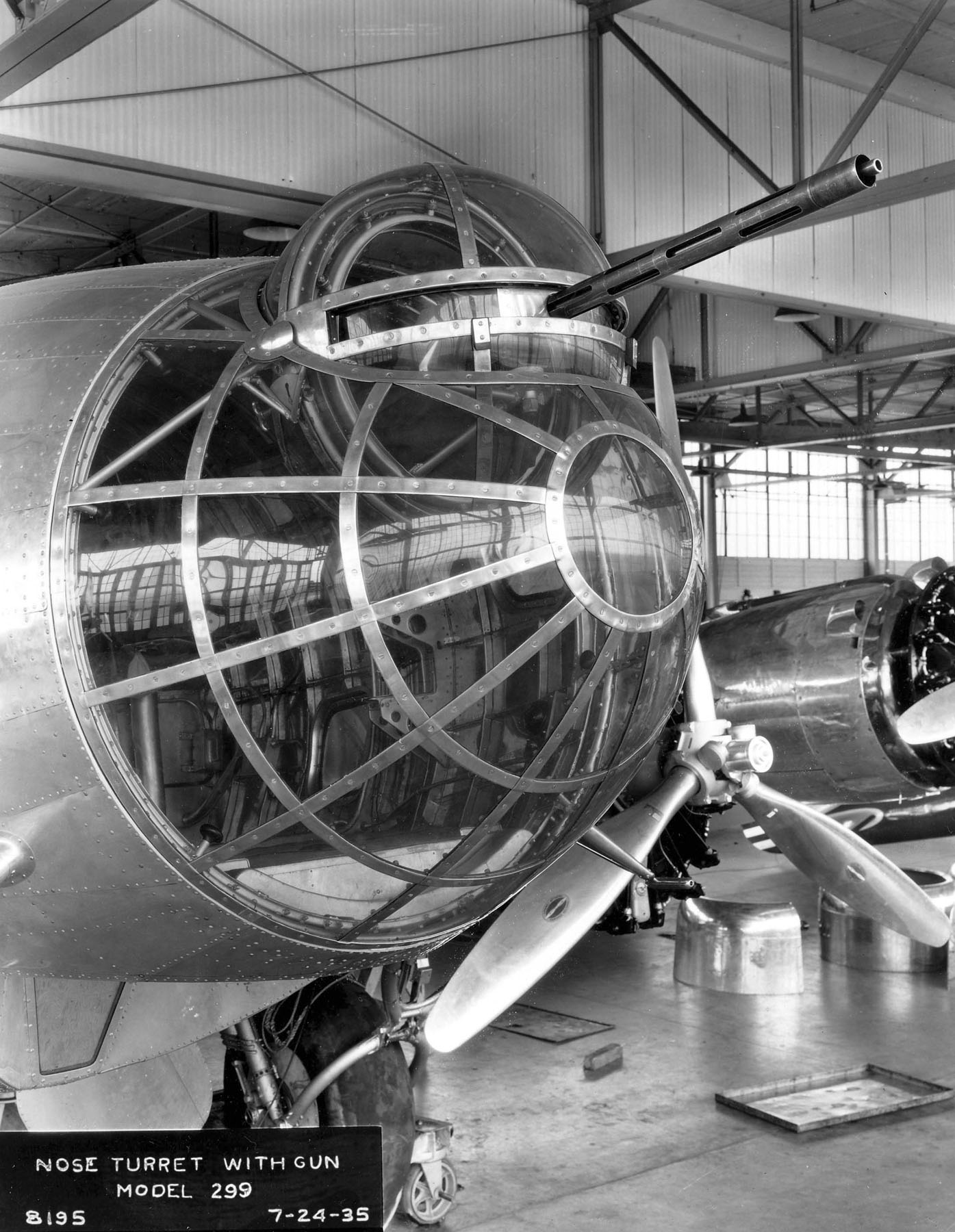 Boeing XB-17 (Model 299) nose turret with gun.